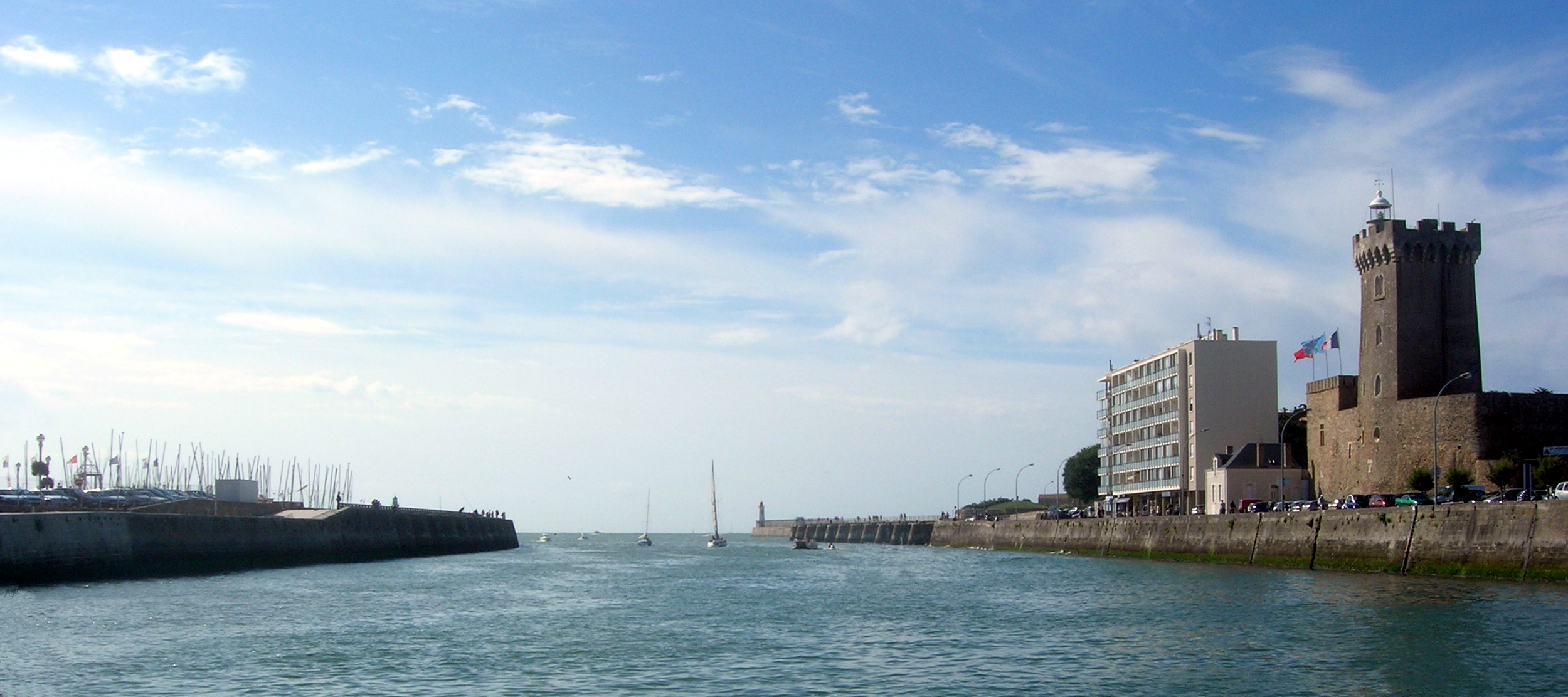 Description =Le chenal d'acces a Port Olonna Source =Photo taken by Remi Jouan Date =Aout 2006 Author =Remi Jouan